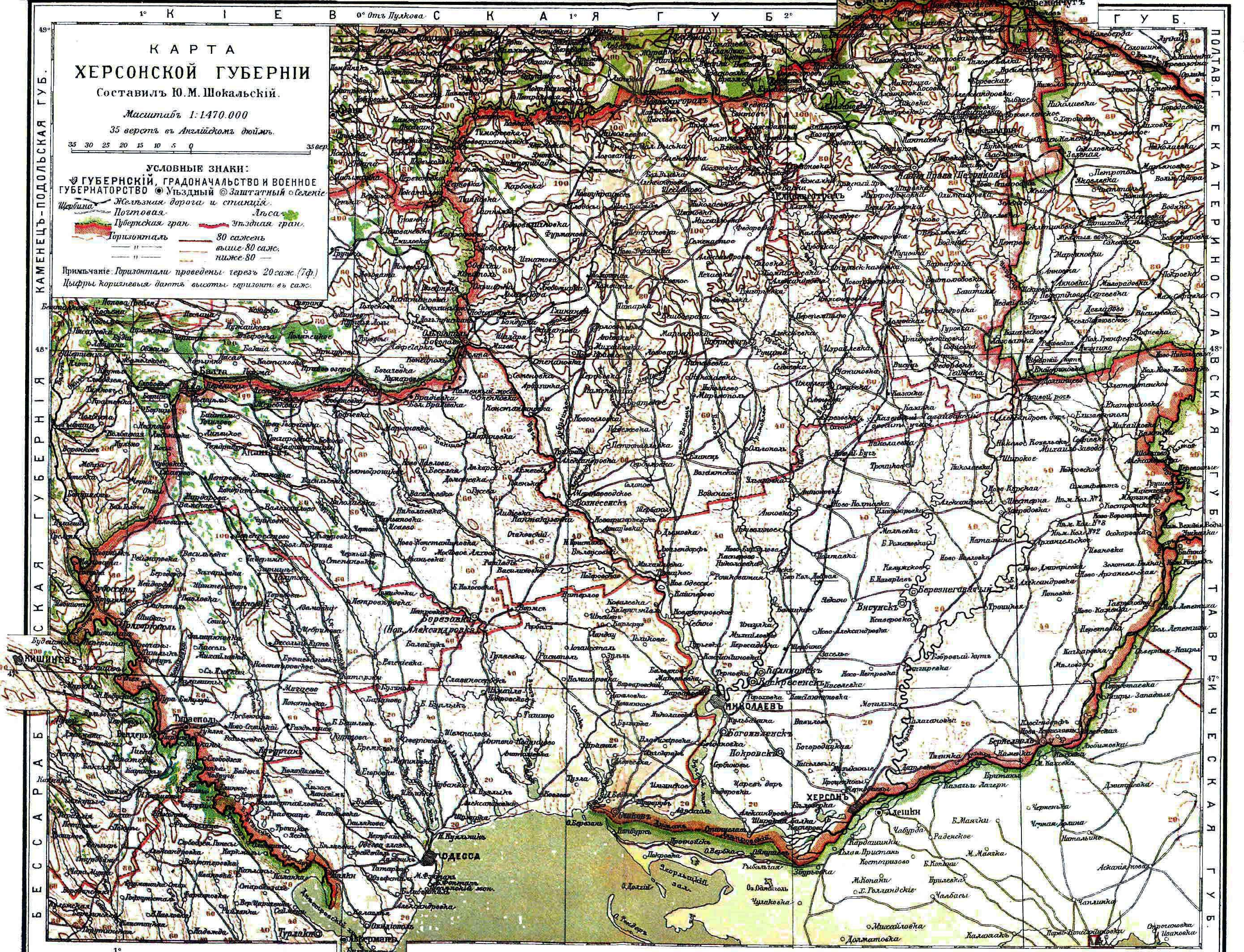 Map of the historic Kherson Governorate of the Russian Empire